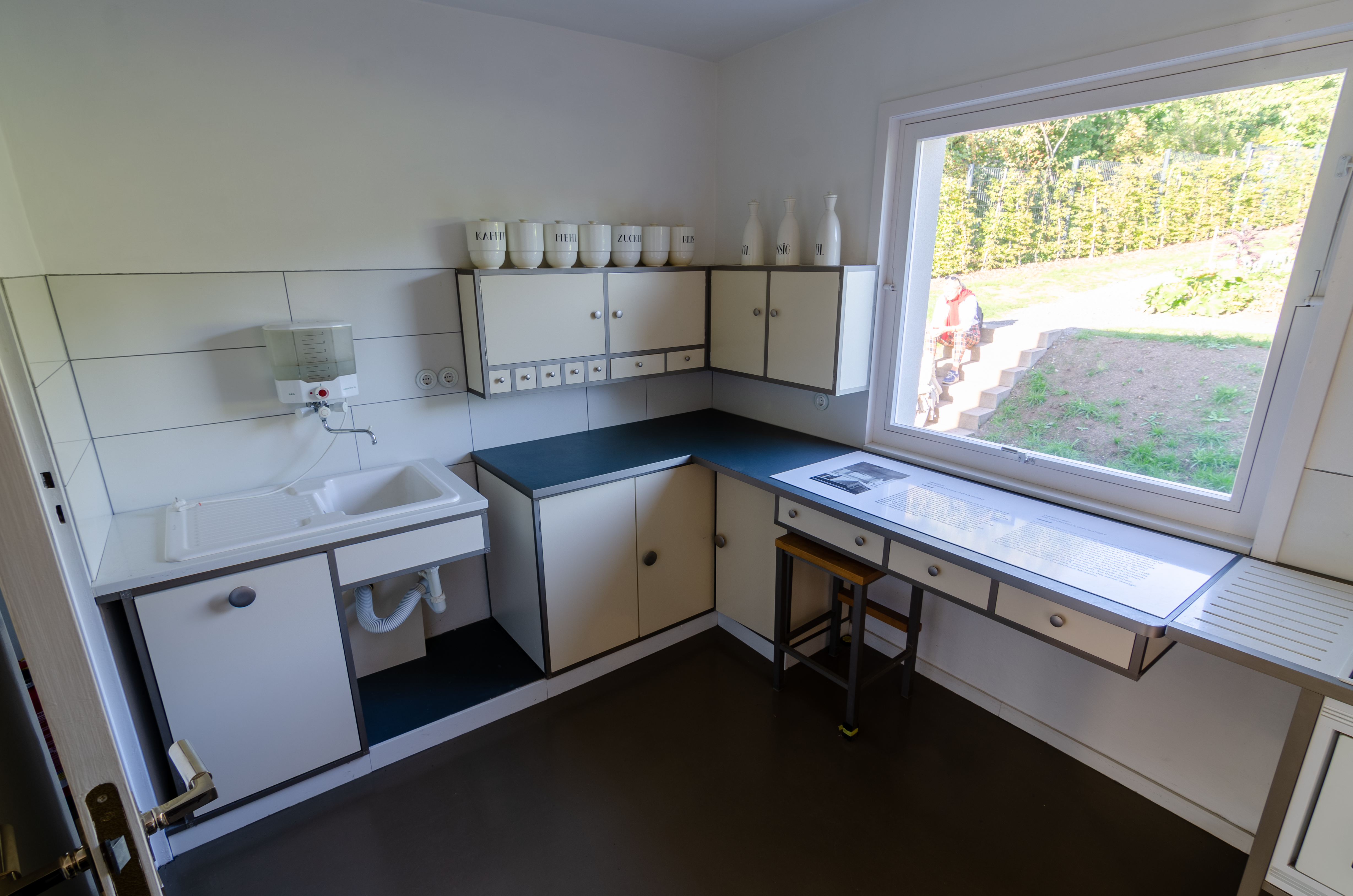 Weimar (Thuringia, Germany) – Haus am Horn – interior – kitchen